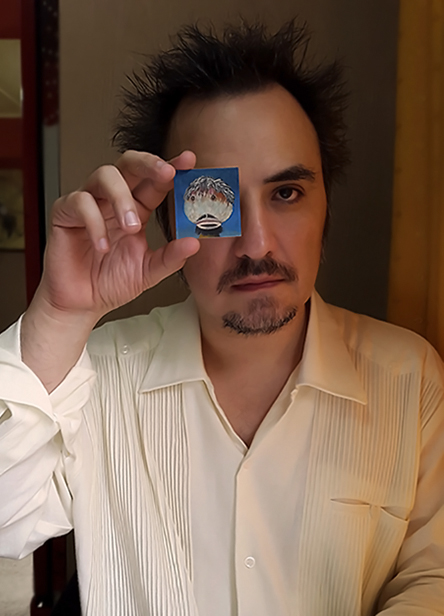 Gustavo Charif with a micro-painting (Singapore, 2016)